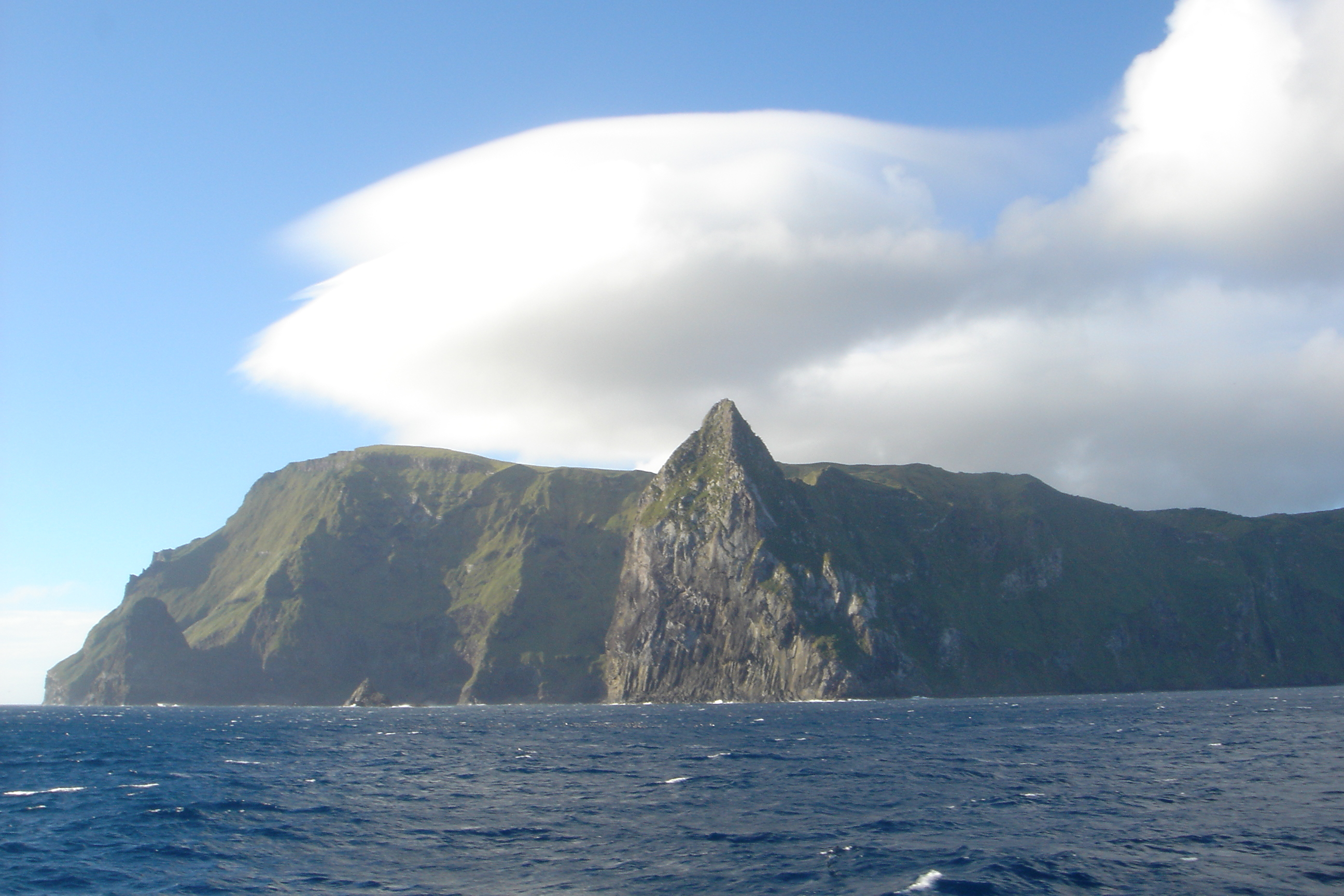 Gough and Inaccessible Islands (United Kingdom of Great Britain and Northern Ireland)